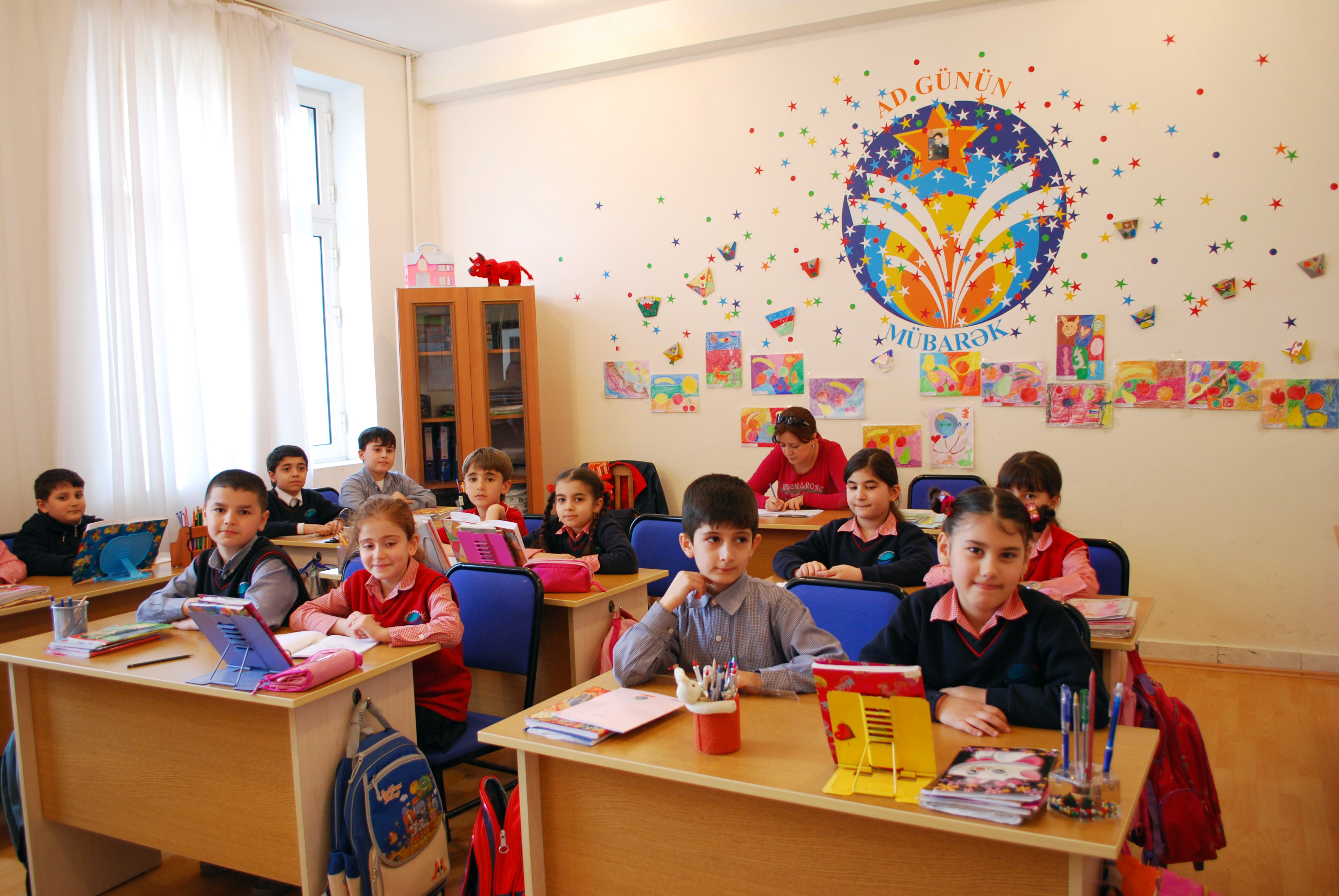 Dunya School students in a classroom